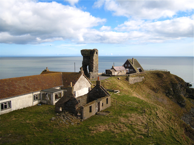 Old Slains Castle About halfway between Aberdeen and Peterhead, stand the clifftop ruins of Old Slains castle, an ancient seat of the Hay family, Earls of Erroll. The lands of Slains were gifted to Sir Gilbert Hay by King Robert the Bruce of Scots (1306 - 1329) for his loyal service during the 'wars of Independence' against the English. In 1594 both Old Slains and another seat of the Hay family, Delgatie castle, were destroyed by King James VI of Scotland (1567 - 1603) in retribution for the Hays involvement in the Roman Catholic/Spanish plot. The modern A frame house was built by the Countess of Errol. More details can be seen at